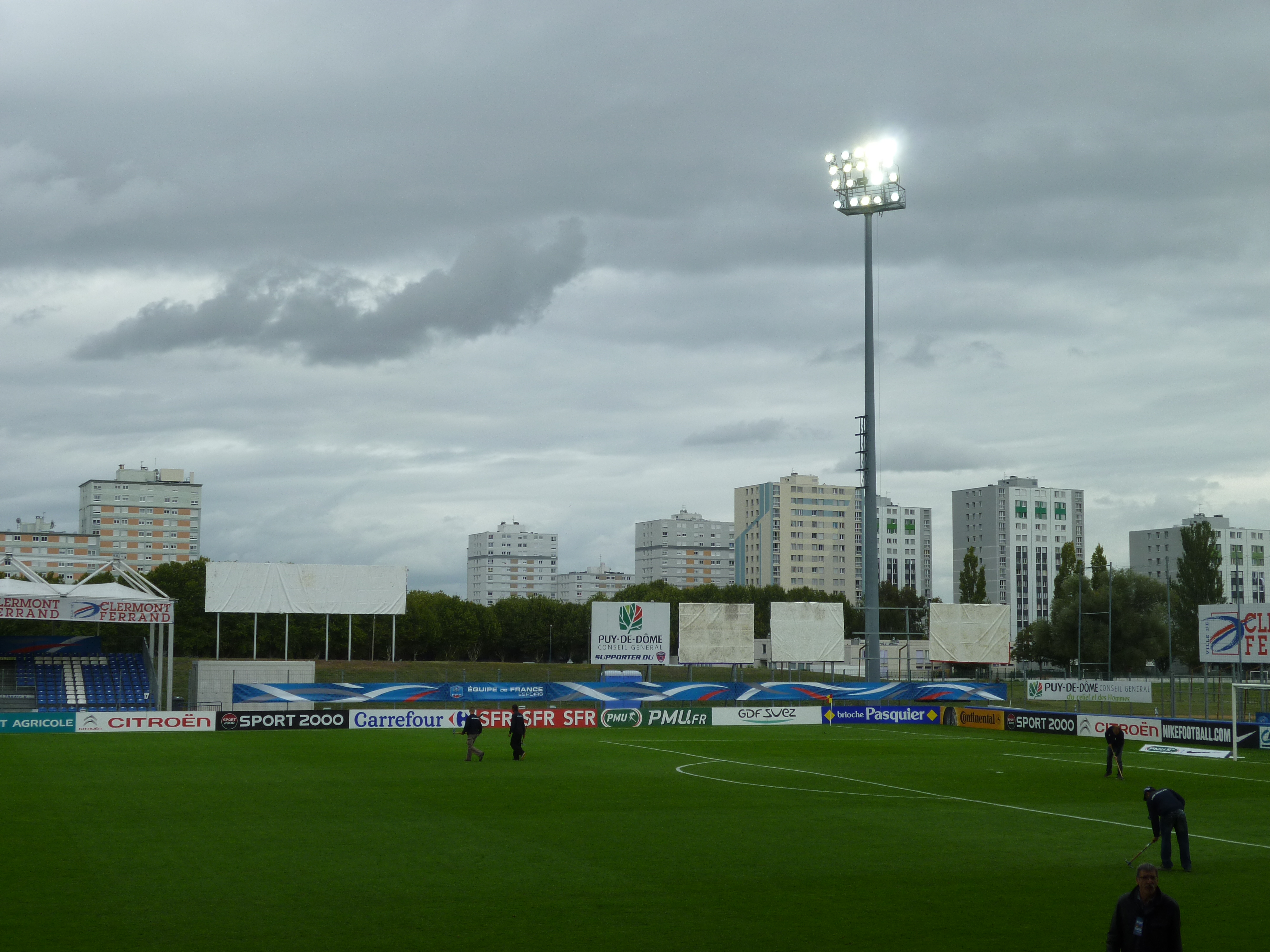 Stade Gabriel Montpied, in Clermont-Ferrand